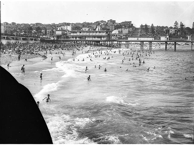 Coogee Pier Dated 1928. Photo is courtesy of the State Library of New South Wales